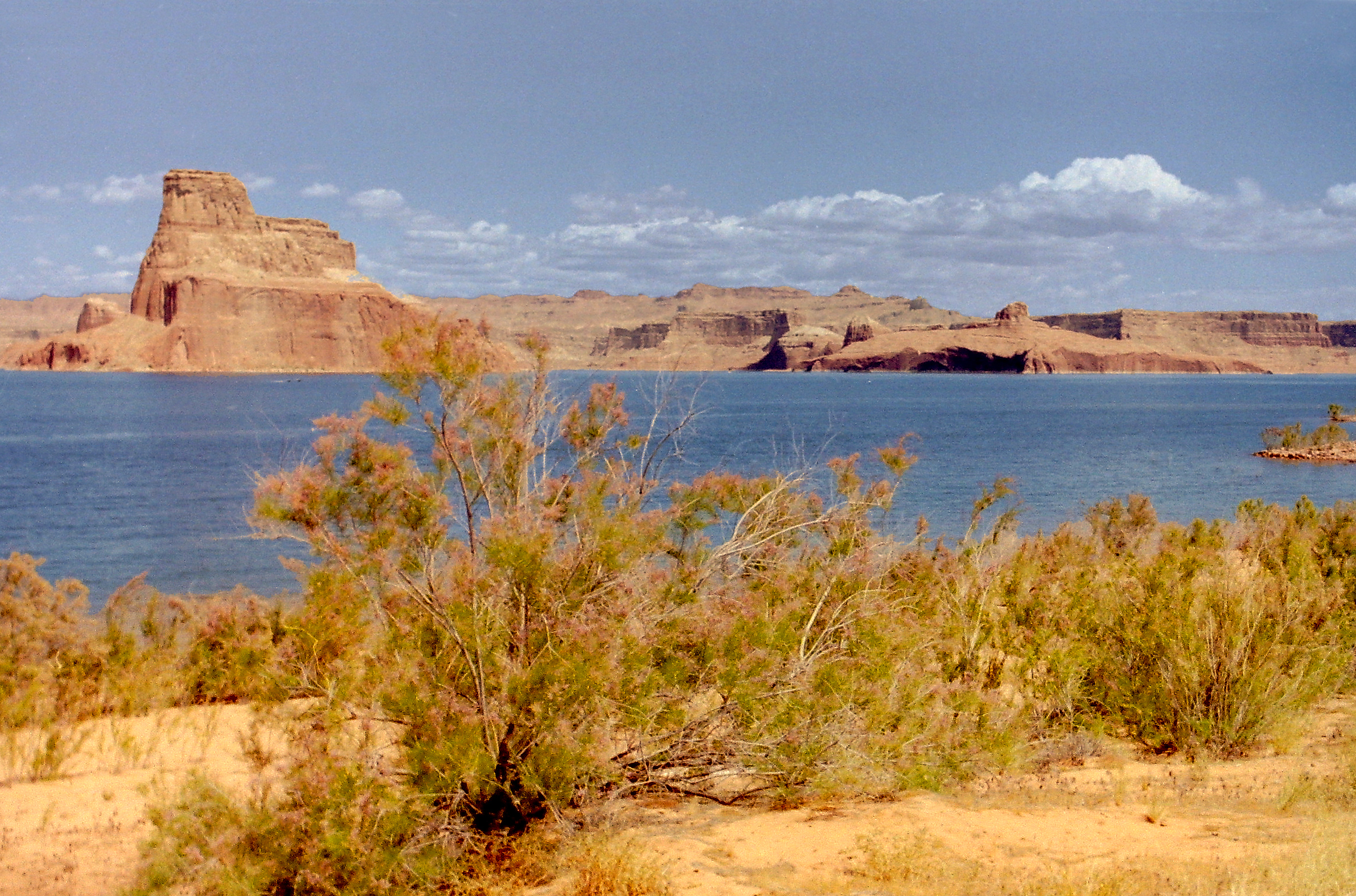 Lake Powell is a reservoir located on the Colorado River, straddling the border between Arizona and Utah, United States. View to Padre Bay and Gunsight Butte.